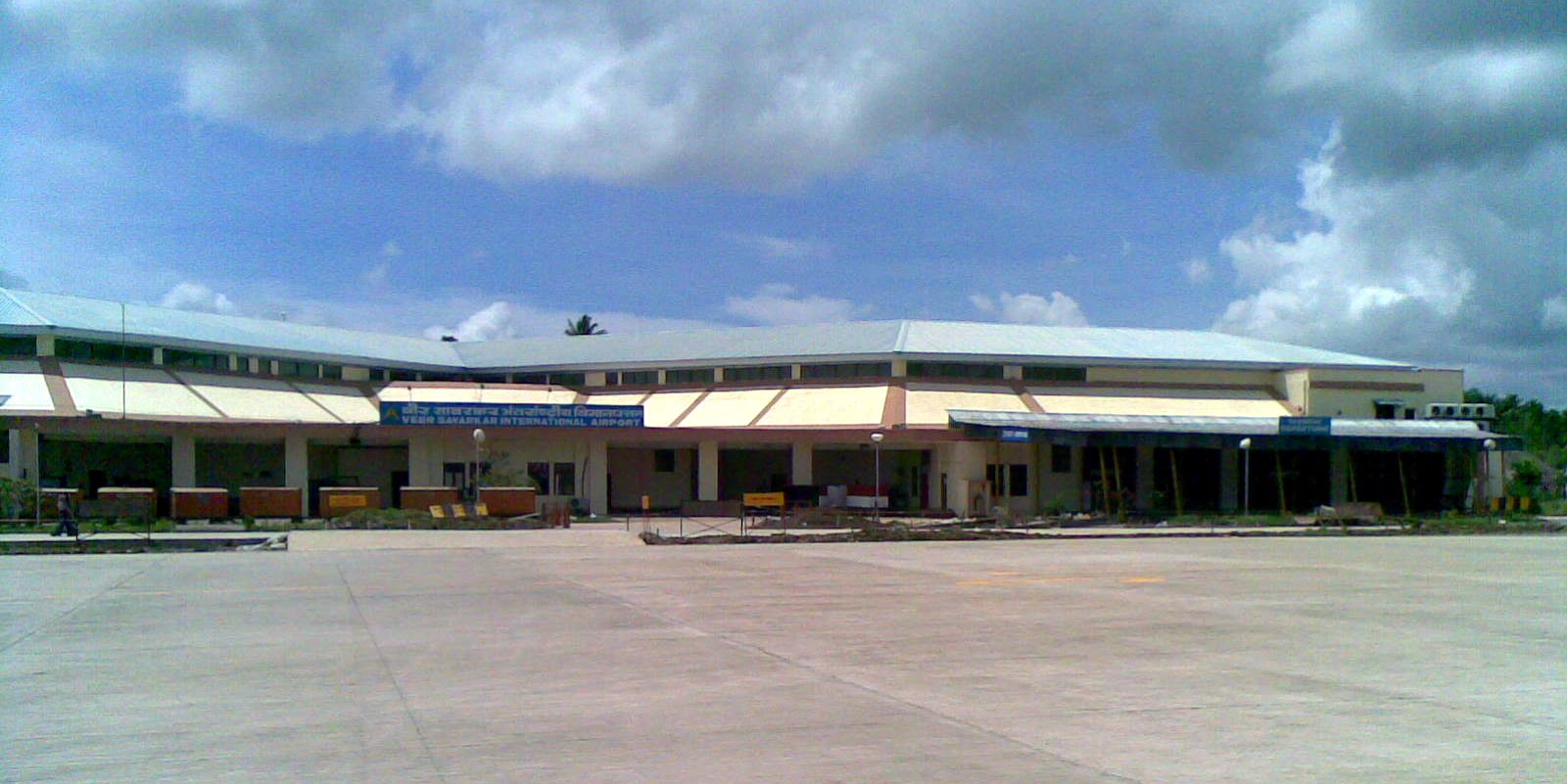 Vir Savarkar Airport, Port Blair